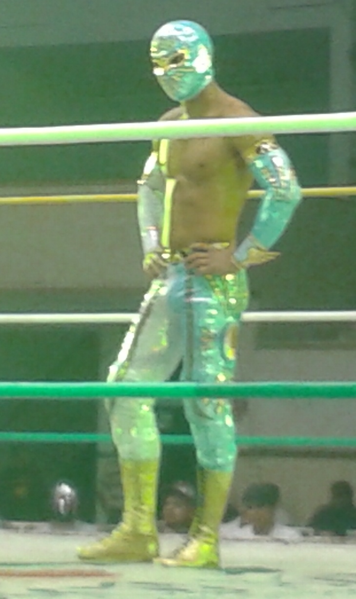 Místico II on May 12, 2013 in Gimnasio Nuevo León of Monterrey, Nuevo León.